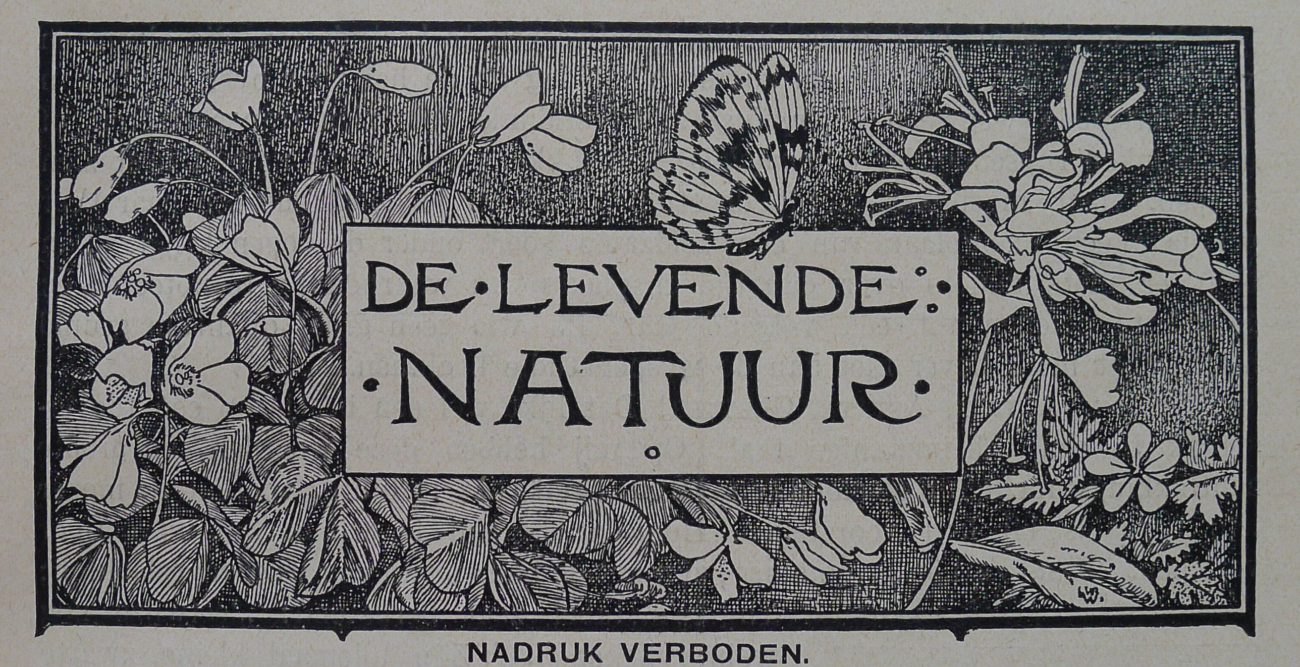 Titlehead of monthly De Levende Natuur